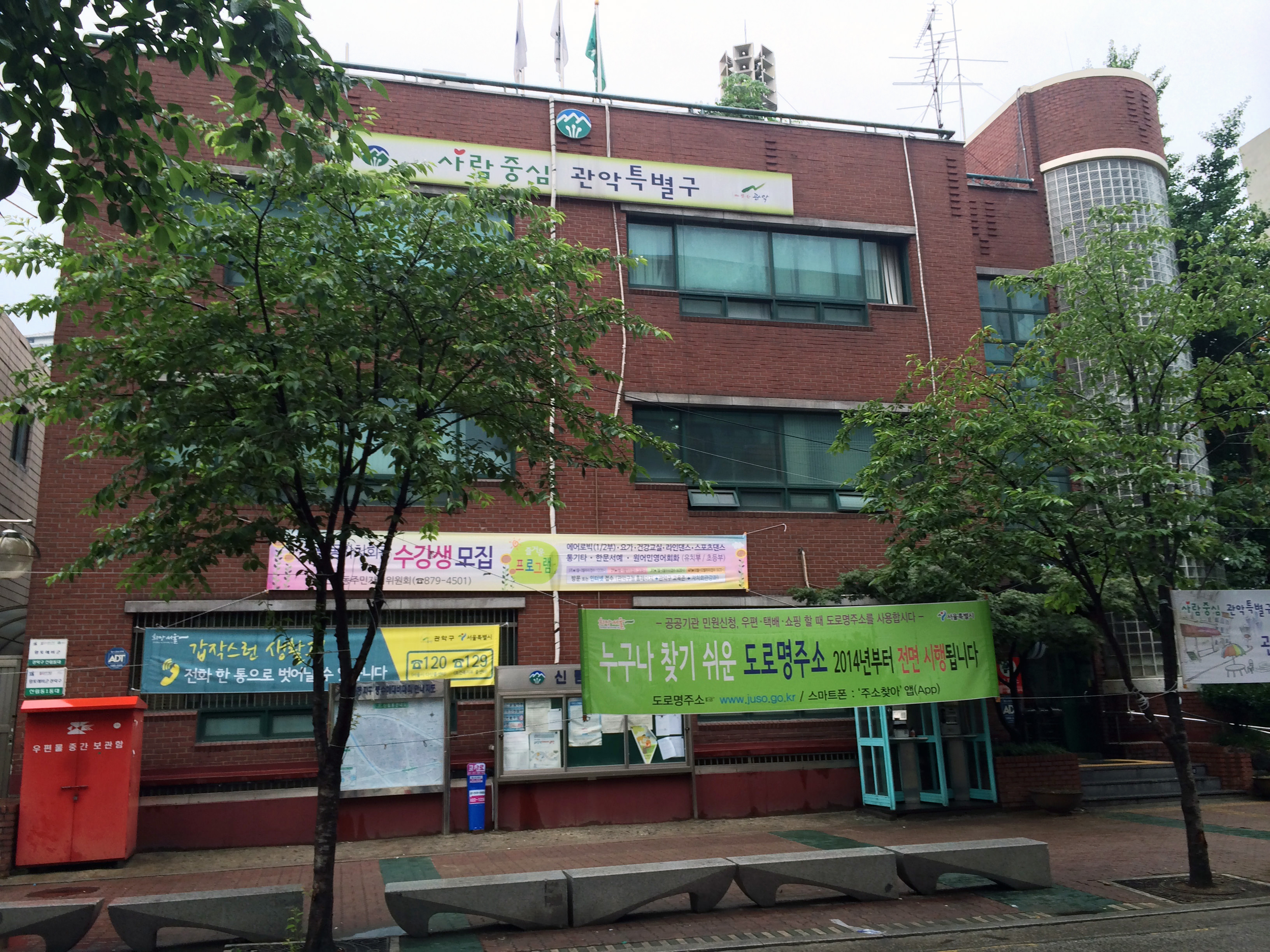 Sillim-dong Comunity Service Center (Gwanak-gu)